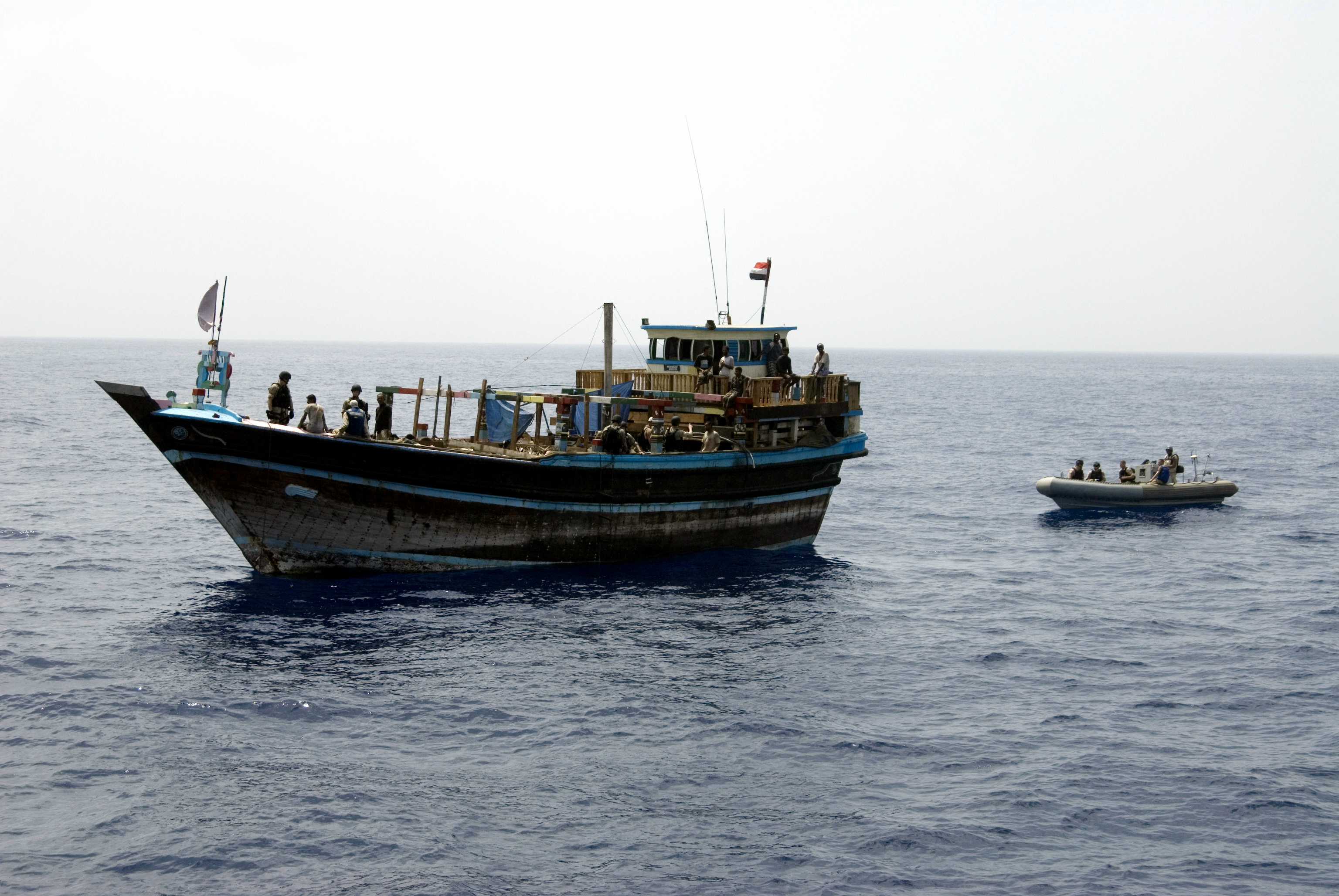 GULF OF ADEN (May 26, 2009) Members of a visit, board, search and seizure (VBSS) team from the guided-missile cruiser USS Gettysburg (CG 64) and U.S. Coast Guard Law Enforcement Detachment (LEDET) 409 respond to a Yemeni dhow that had been drifting at sea for two days due to engine problems. Gettysburg is part of Combined Task Force (CTF) 151, a multinational task force established to conduct counter-piracy operations under a mission-based mandate throughout the CMF area of responsibility. (U.S. Navy photo by Mass Communication Specialist 1st Class Eric L. Beauregard/Released)